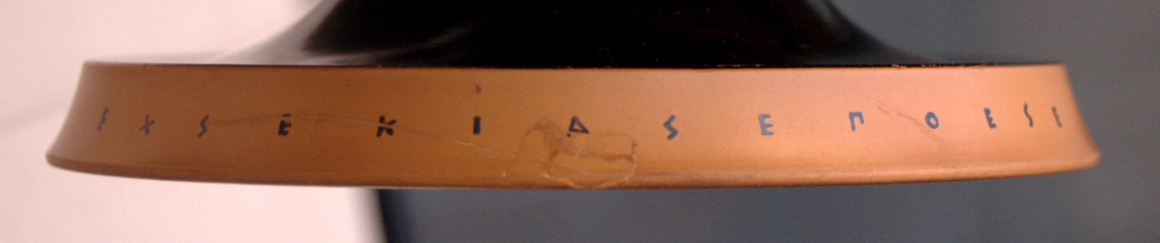 Exekias' signature (ΕΧΣΕΚΙΑΣ ΕΠΟΕΣΕ), rotated 90° clockwise, detail from a kylix's foot representing Dionysos sailing, ca. 530 BC.